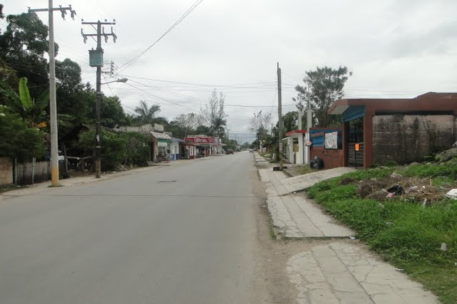 In Carrillo Puerto